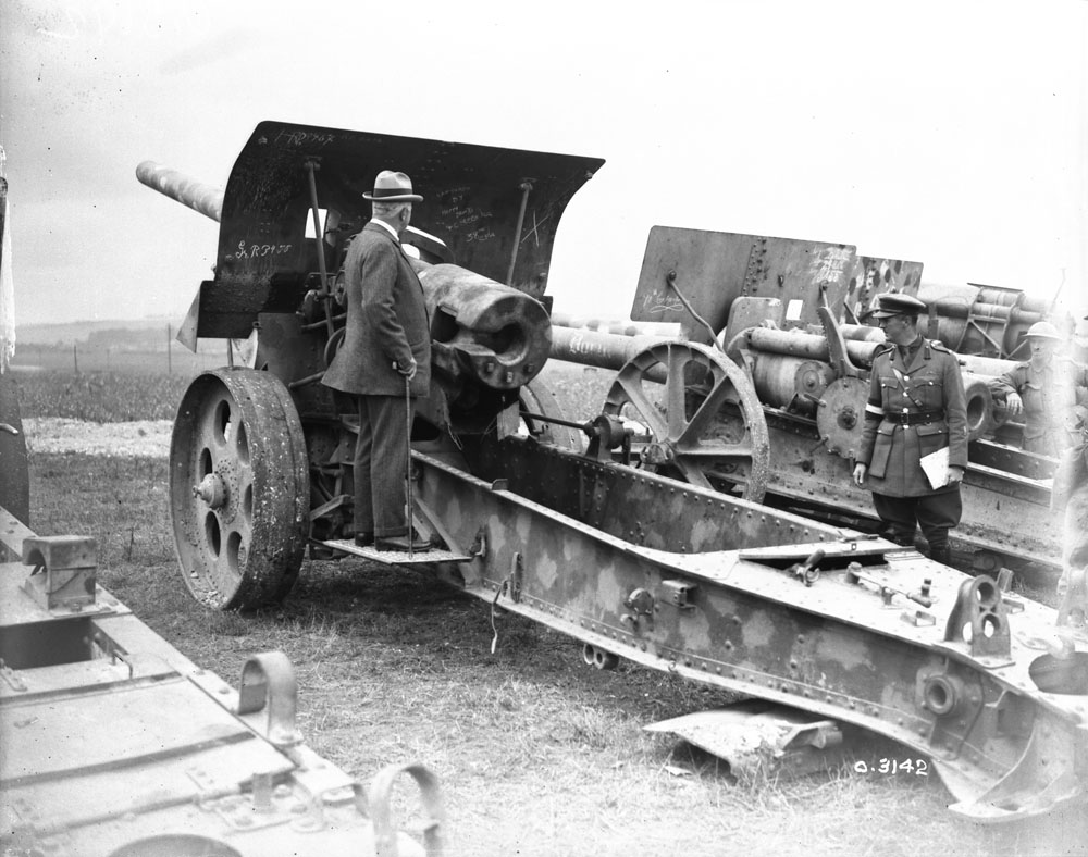 Captured German guns, including 15 cm Kanone 16. Title:Sir Edward Kemp interested in captured guns. Advance East of Arras. August, 1918.